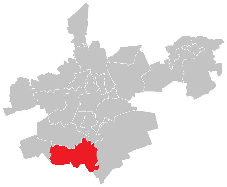 Location map of Olomouc district Nemilany